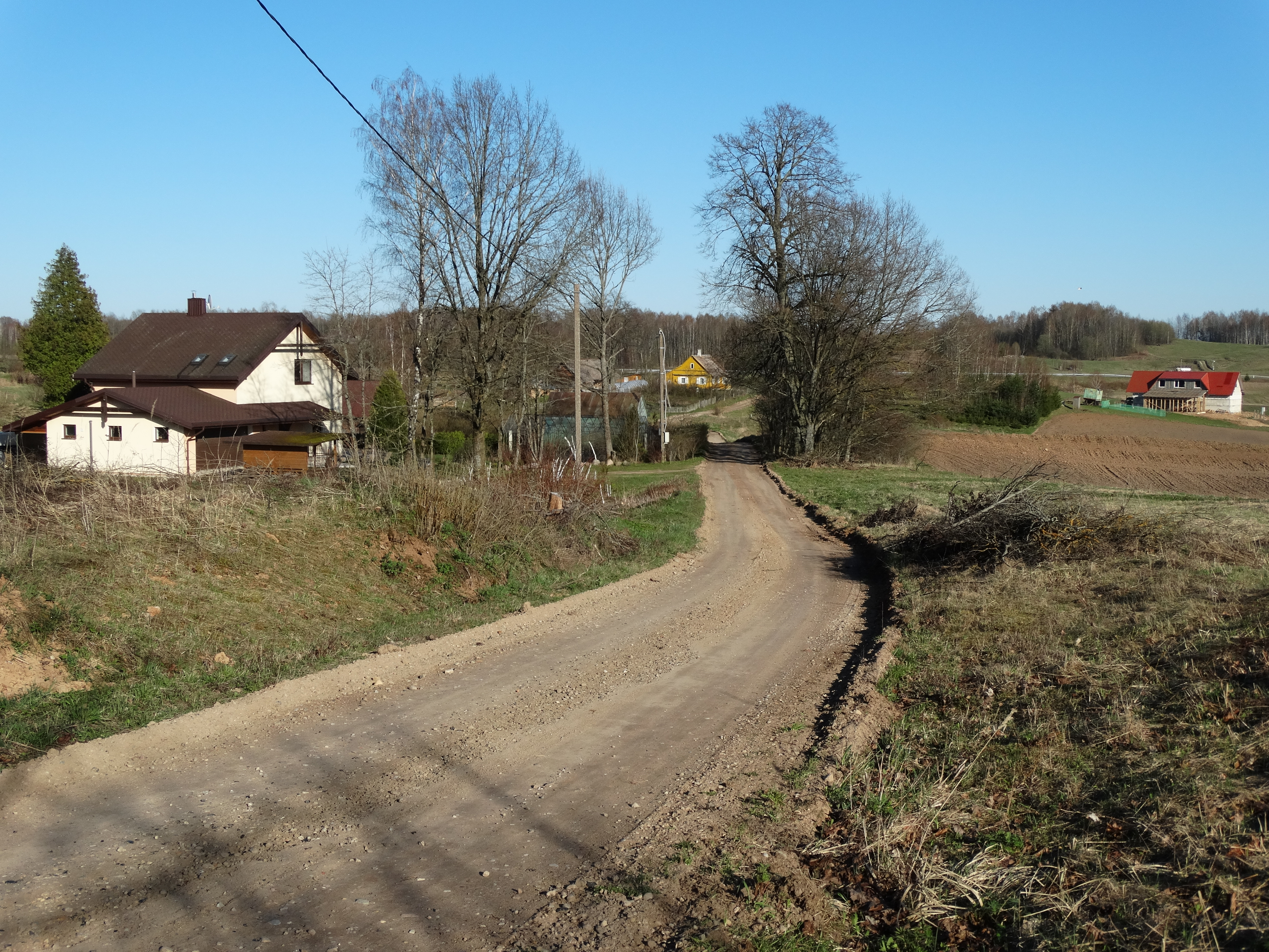 Žemaitėliai, Vilnius District, Lithuania